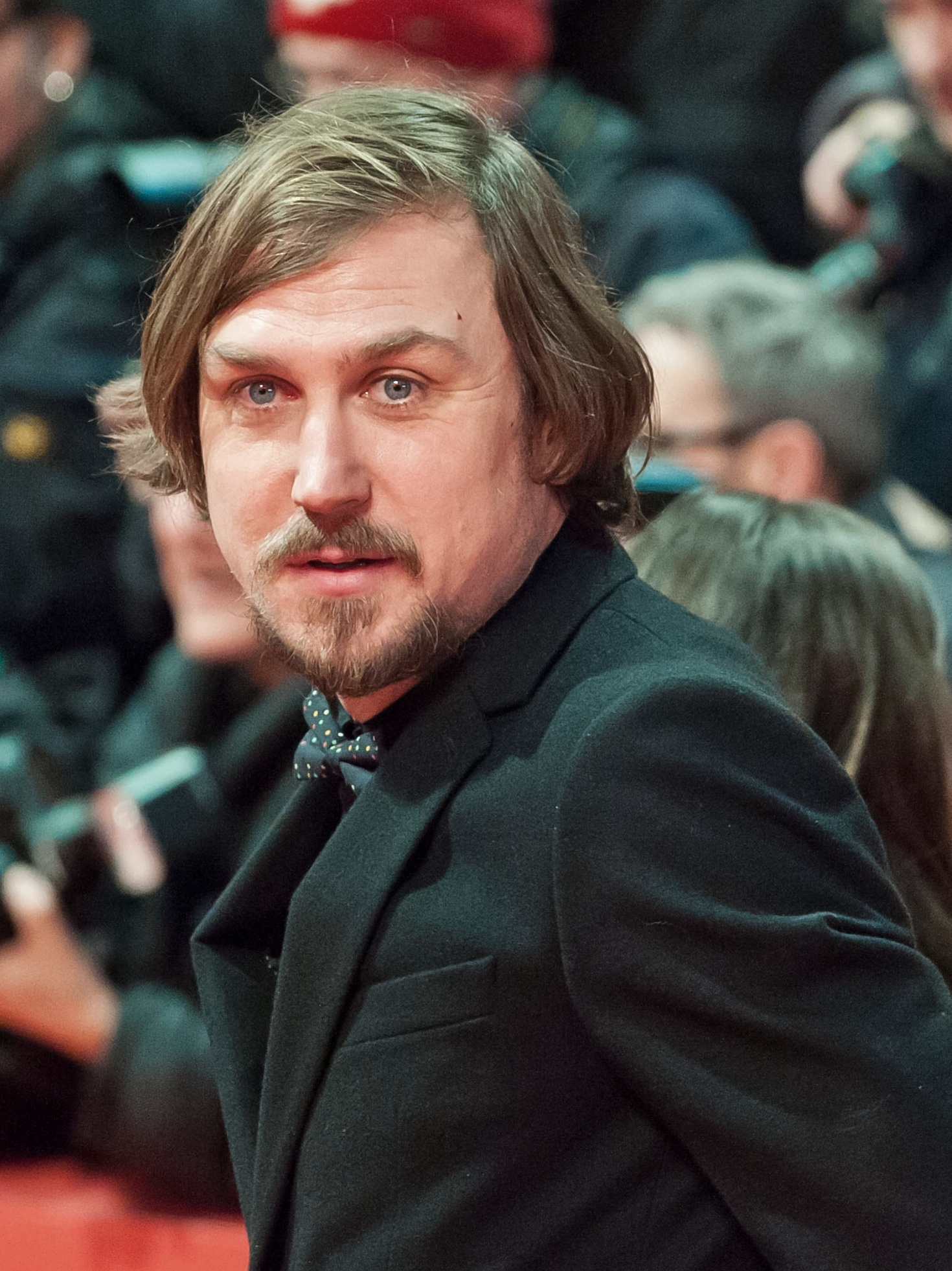 German actor Lars Eidinger, Opening of the 64th Berlin International Film Festival at the Berlinale Palast